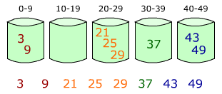 Made by me in Macromedia Flash